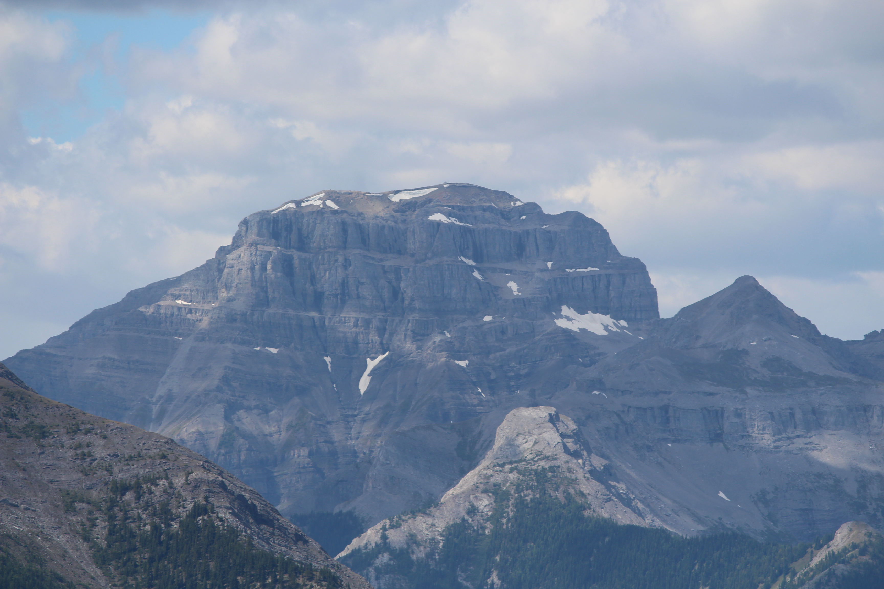 Sulphur Mountain, Banff, Banff National Park, Alberta, Canda